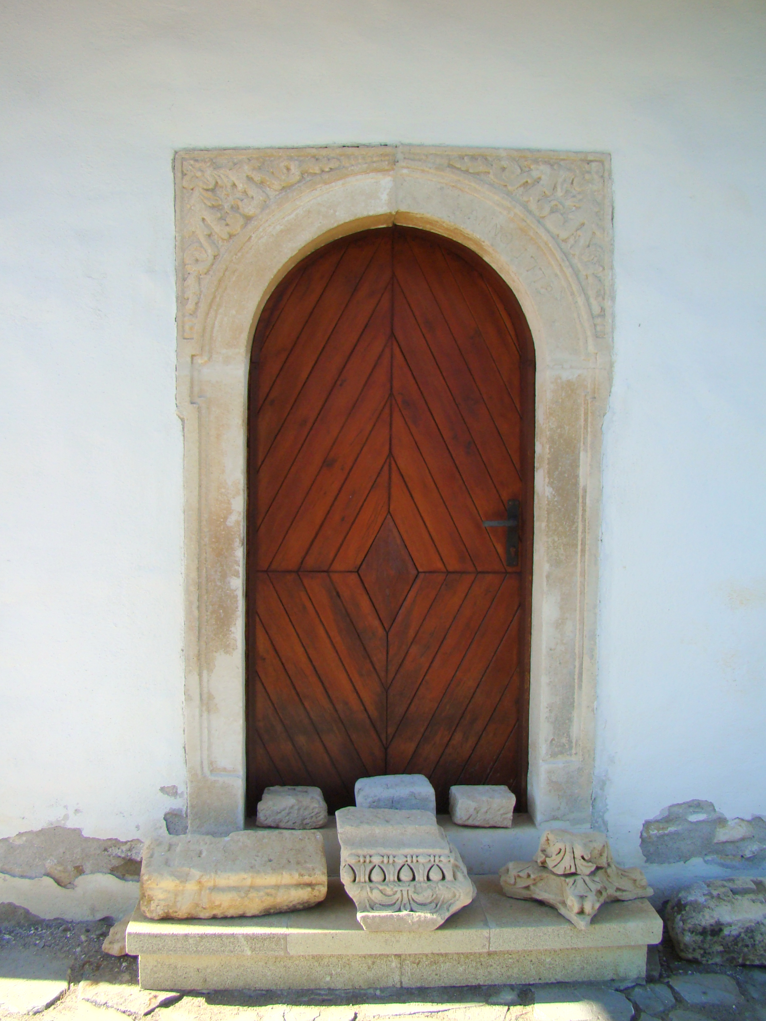 Saint Paraskeva's church in Mesentea, Alba county, Romania